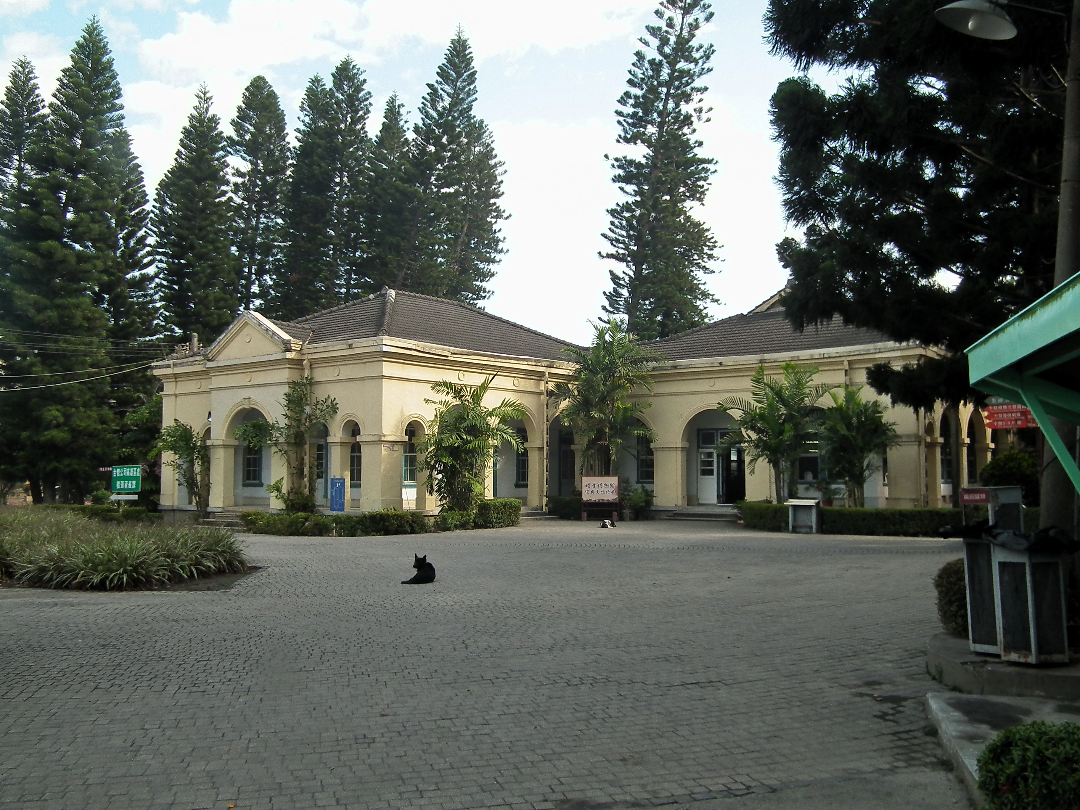 原橋頭糖廠俱樂部 Former Club of Qiaotou Sugar Refinery